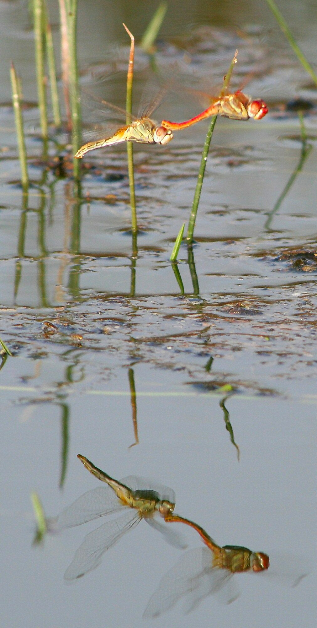 Red-veined darter dragonflies (Sympetrum fonscolombii) mating during flight in Algarve, Portugal.